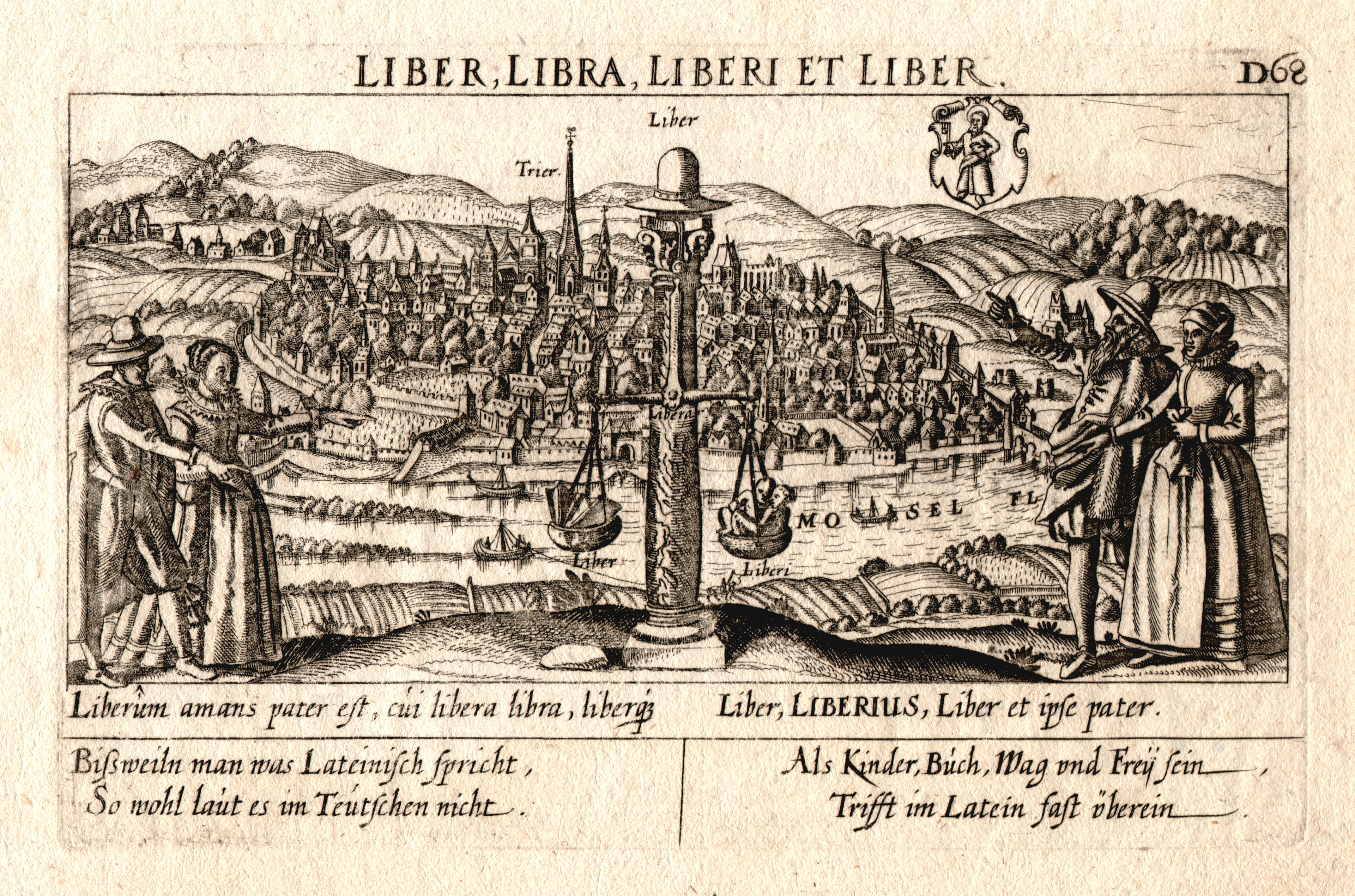 View of Trier from Thesaurus philopoliticus (1625) by Daniel Meisner, copperplate print by Eberhard Kieser. The image shows a view of Trier, in the foreground an antique column with a pair of scales and symbols around the Latin word "liber": scales (libra), in the left scalepan books (libri), in the right one children (liberi), on top a hat, since ancient times a symbol of liberty (liber = free), two married couples, left and right, pointing at the column, Saint Peter, patron of the city, in heraldic shield. Size: 97 mm × 149 mm.